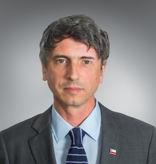 Foto oficial de Andres Couve como Ministro